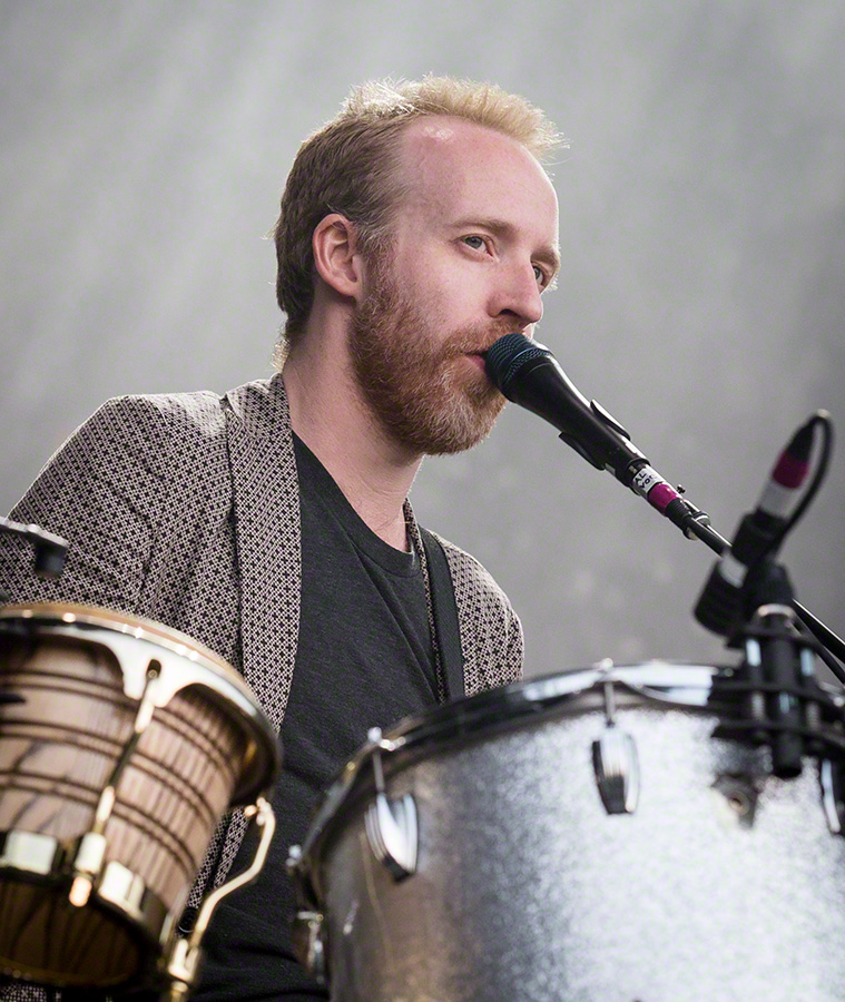 LCD Soundsystem performs at Quart Festival in Kristiansand on 28. June 2016. Lineup:James Murphy (vocal)Nancy Whang (keyboard)